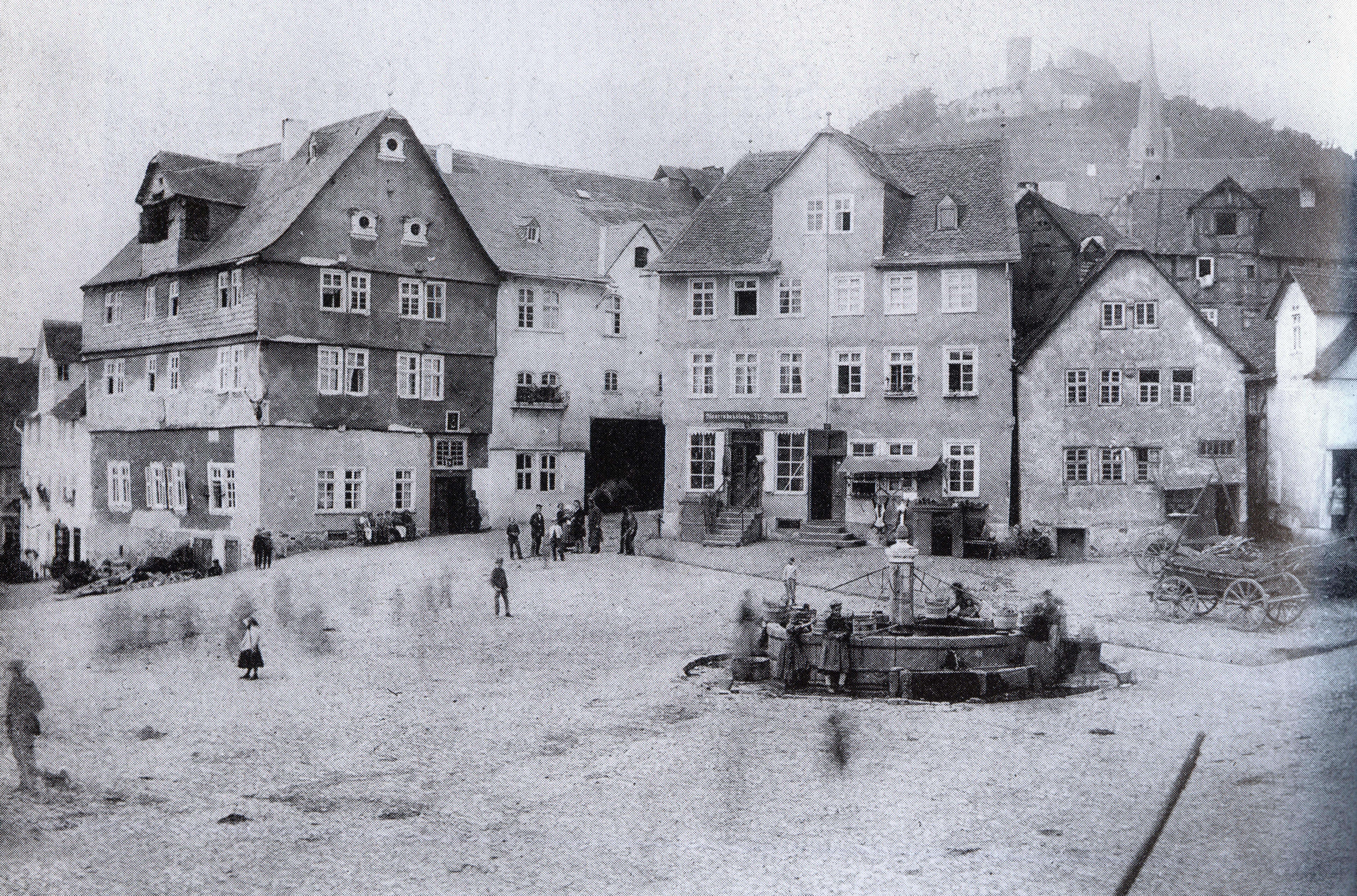 Germany, Biedenkopf, lower market place.